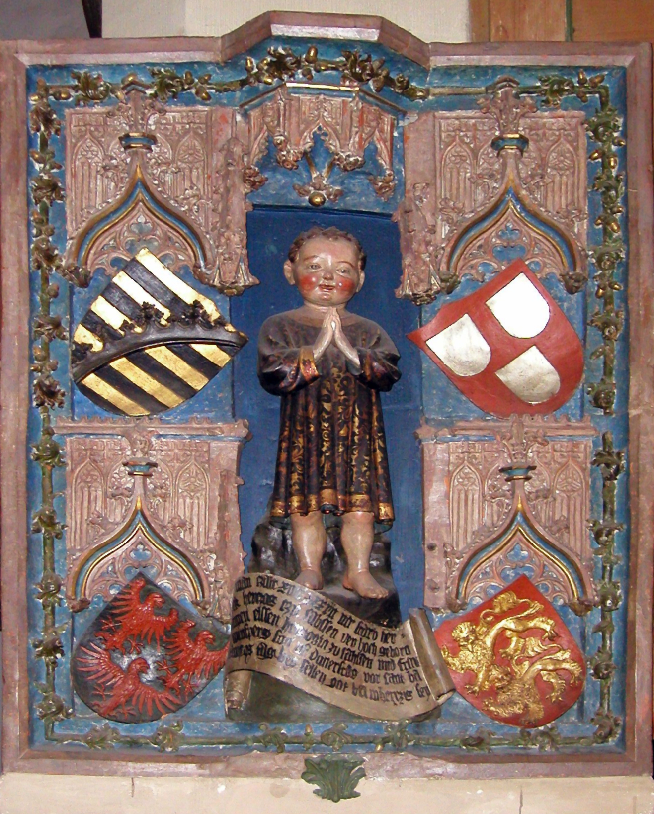 Lutheran City Church of St. George, Weikersheim: Epitaph for the little prince Duke Henry of Saxony, Angria and Westphalia (Lauenburg), d. 1437, son of Elisabeth of Weinsberg (1397 till after 26 Januar 1498) and Duke Eric V.